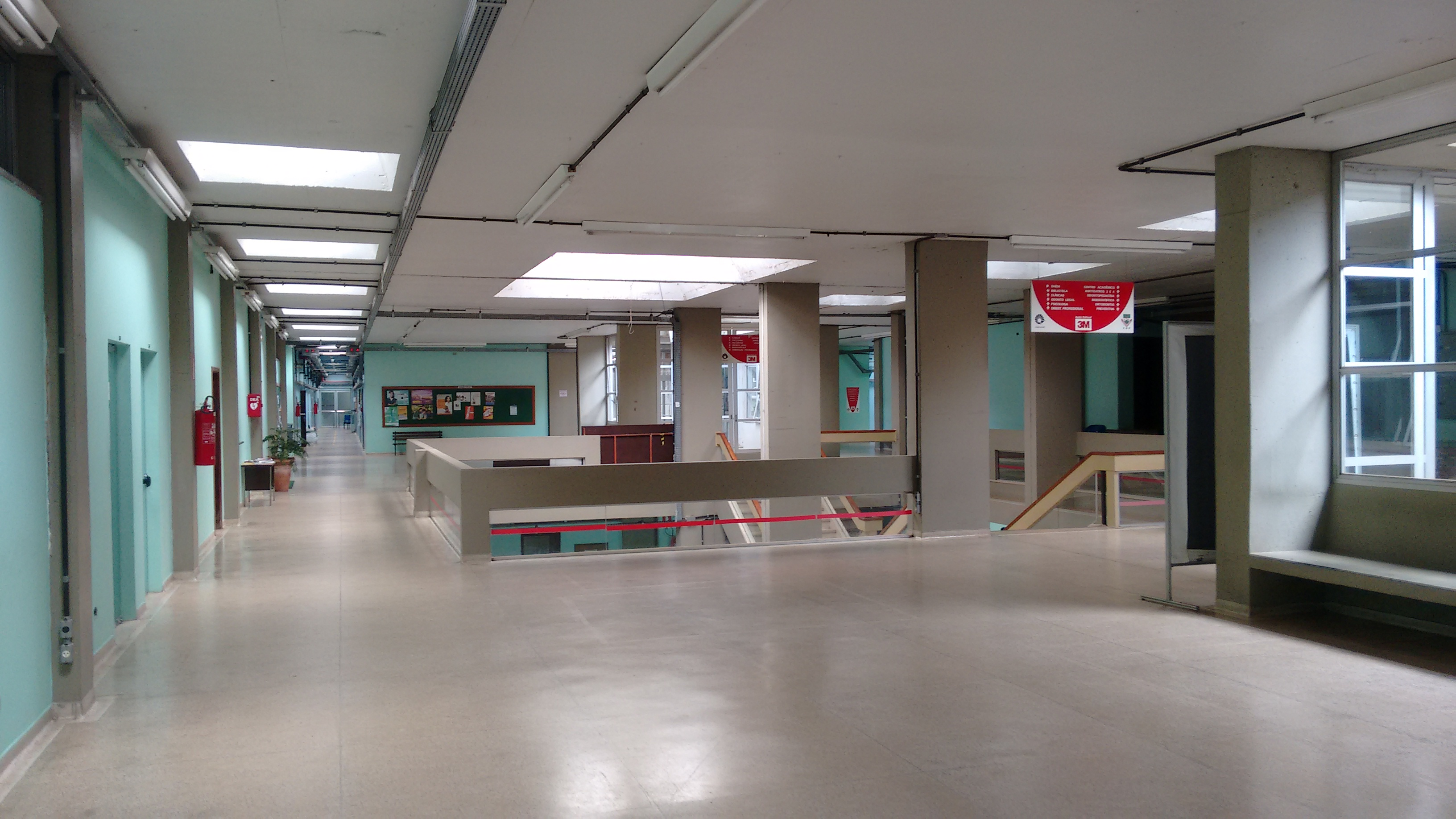 School of Dentistry of Piracicaba